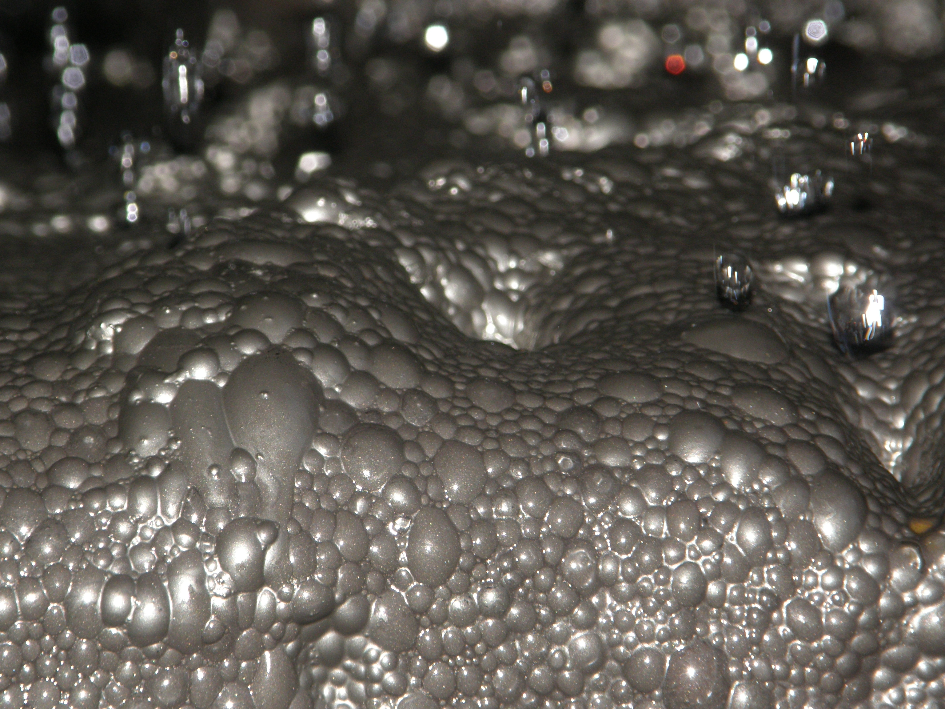 Copper-sulphide foam on a Jameson Cell, Prominent Hill, South Australia